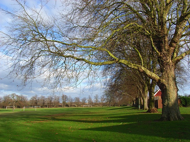 Looking across the middle of the park towards the railway.